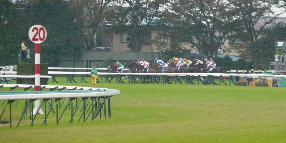 Tokyo-Racecourse-03